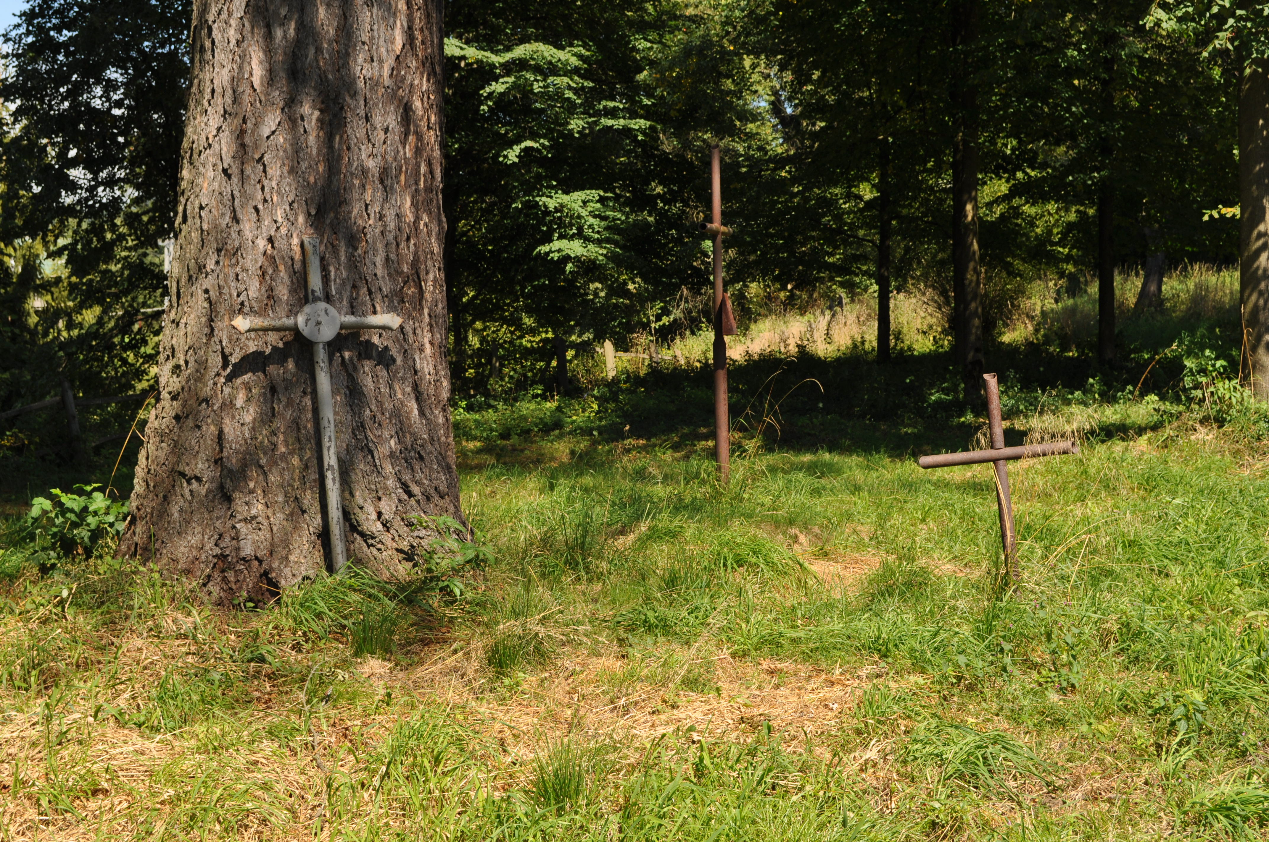 Cemtery in Czarna Dolna